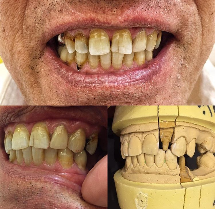 Crown on upper canine and lower premolar teeth made of pressable Emax porcelain